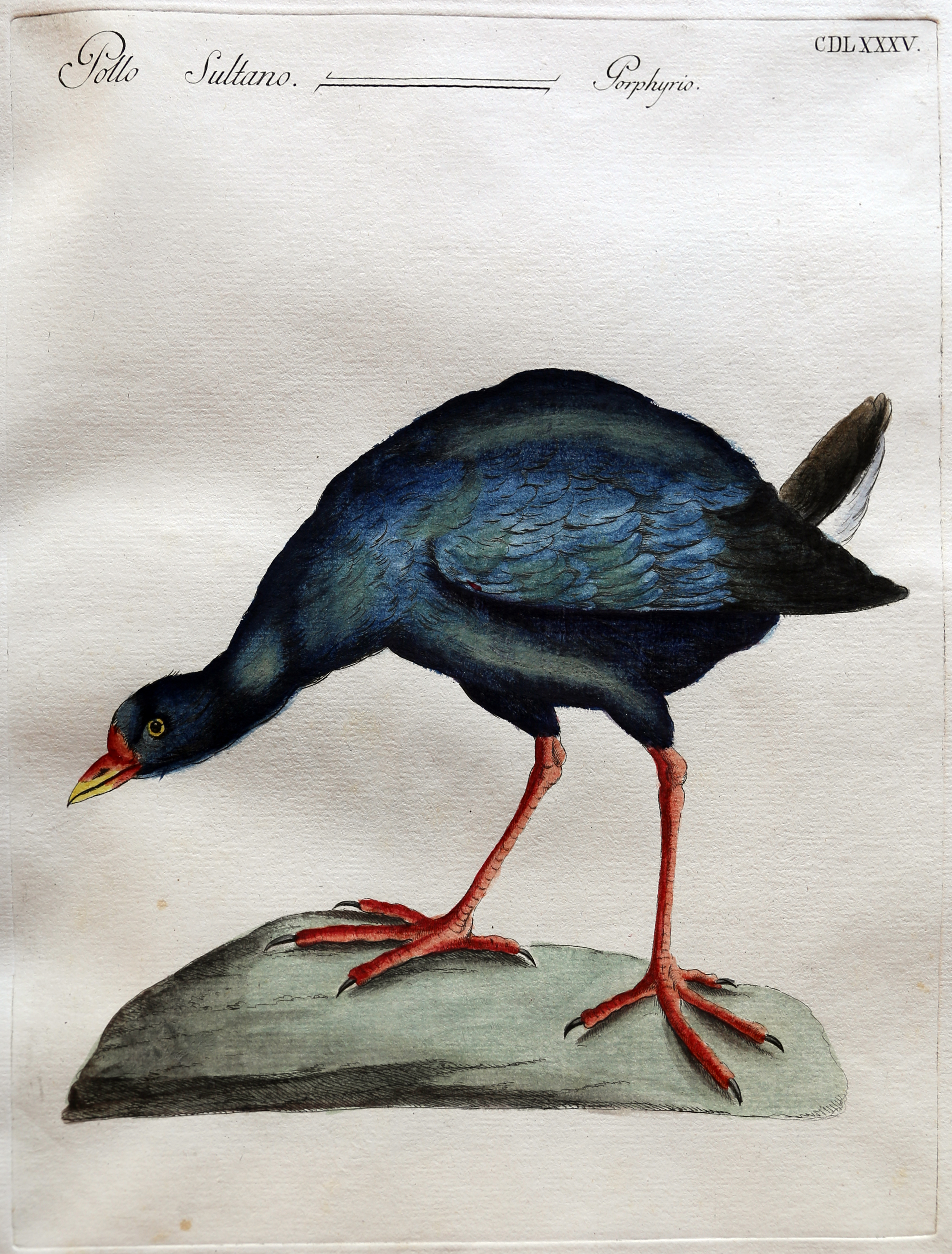 Ornithologia methodice digesta (Crusca)